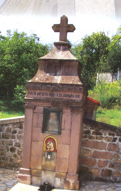 Image of Svetinja, monument